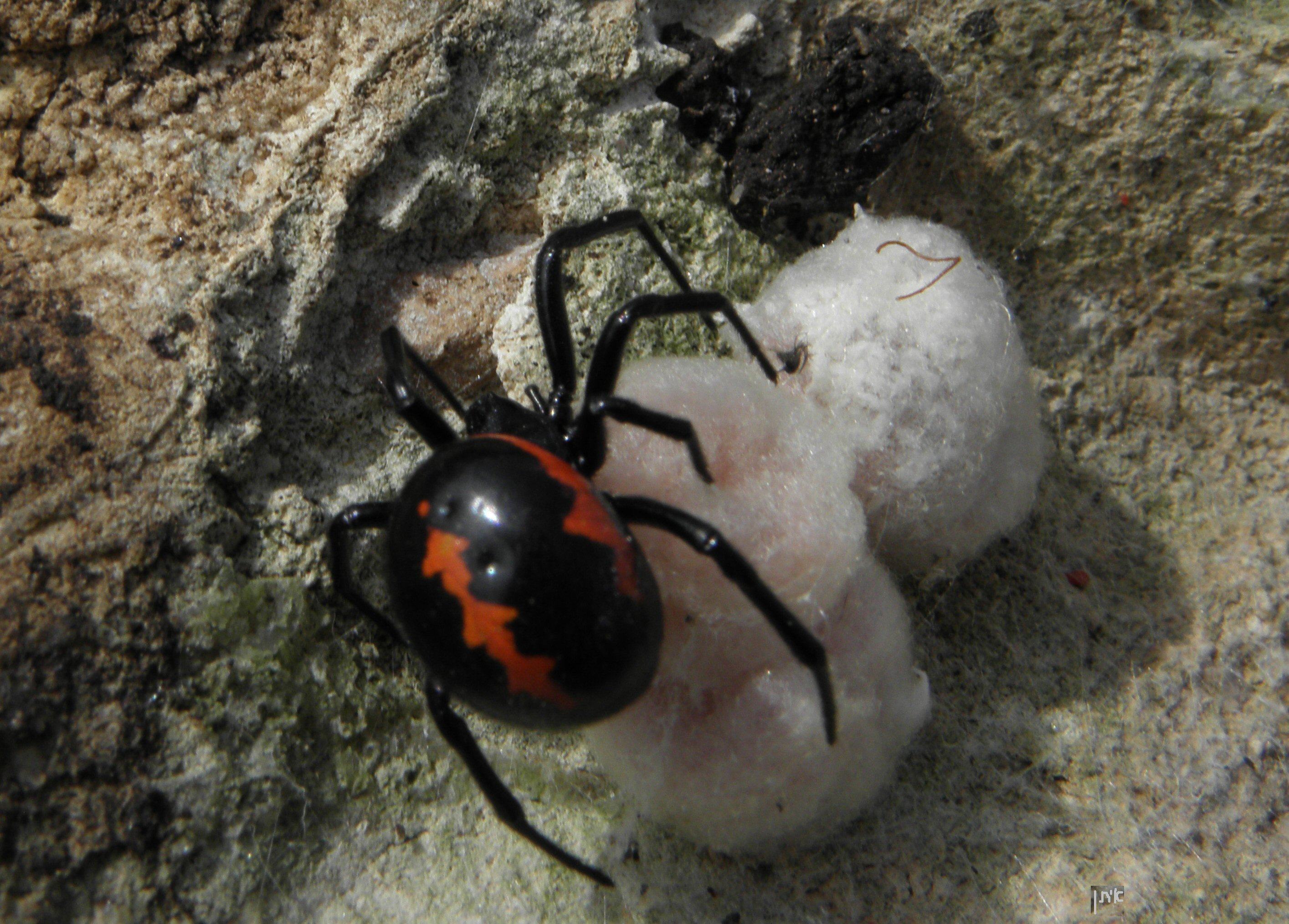 Steatoda paykulliana on its eggs bag כדורית אדומה על שק הביצים שלה. ליד יקנעם